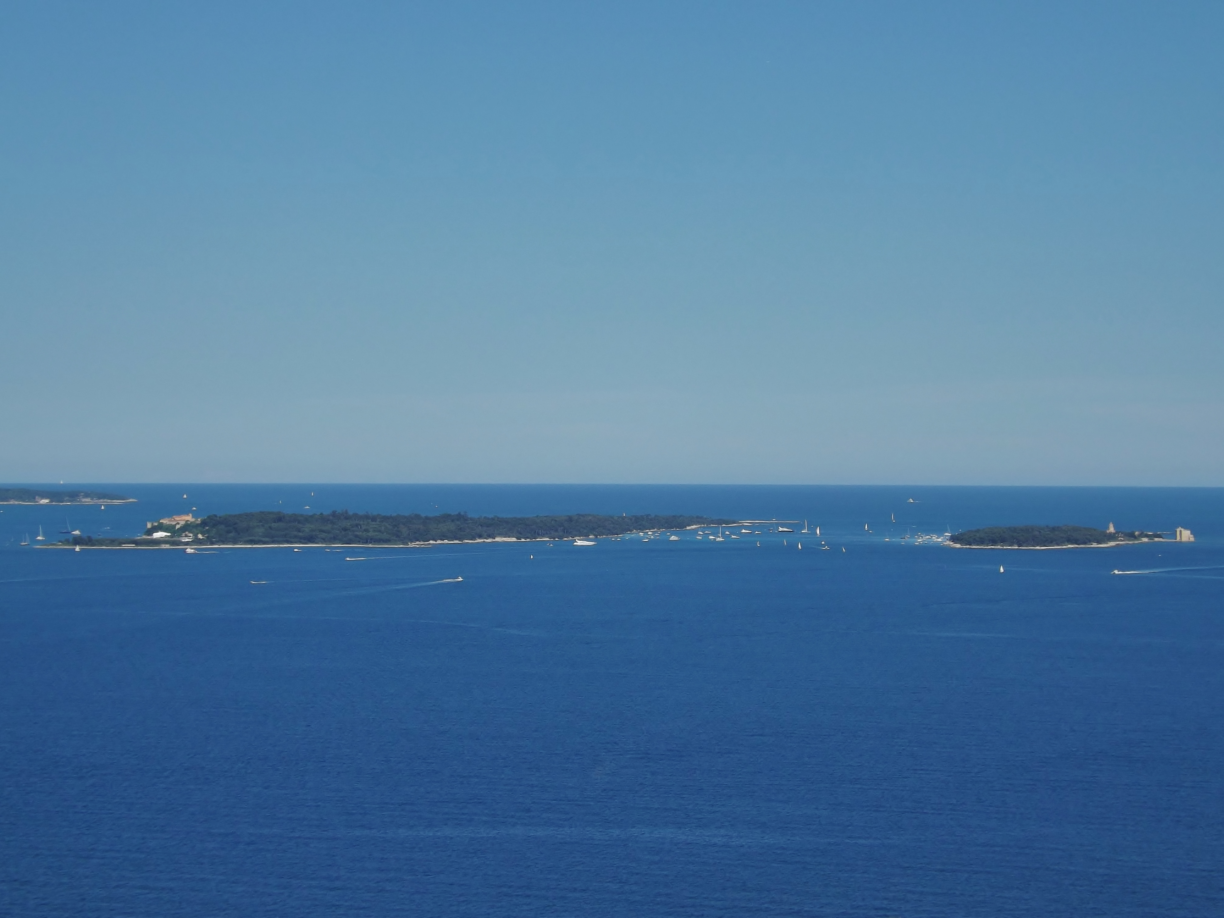 Sight, from the heights of Théoule-sur-Mer, of the îles du Lérins islands, île Sainte-Marguerite and île Saint-Honorat, with the cap d'Antibes cap on the left border, near Cannes in Alpes-Maritimes, France.